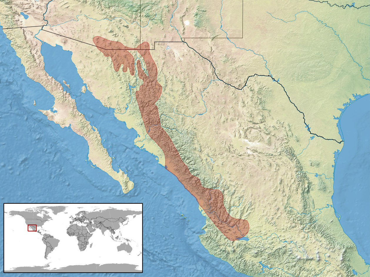 geographic distribution of Plestiodon callicephalus